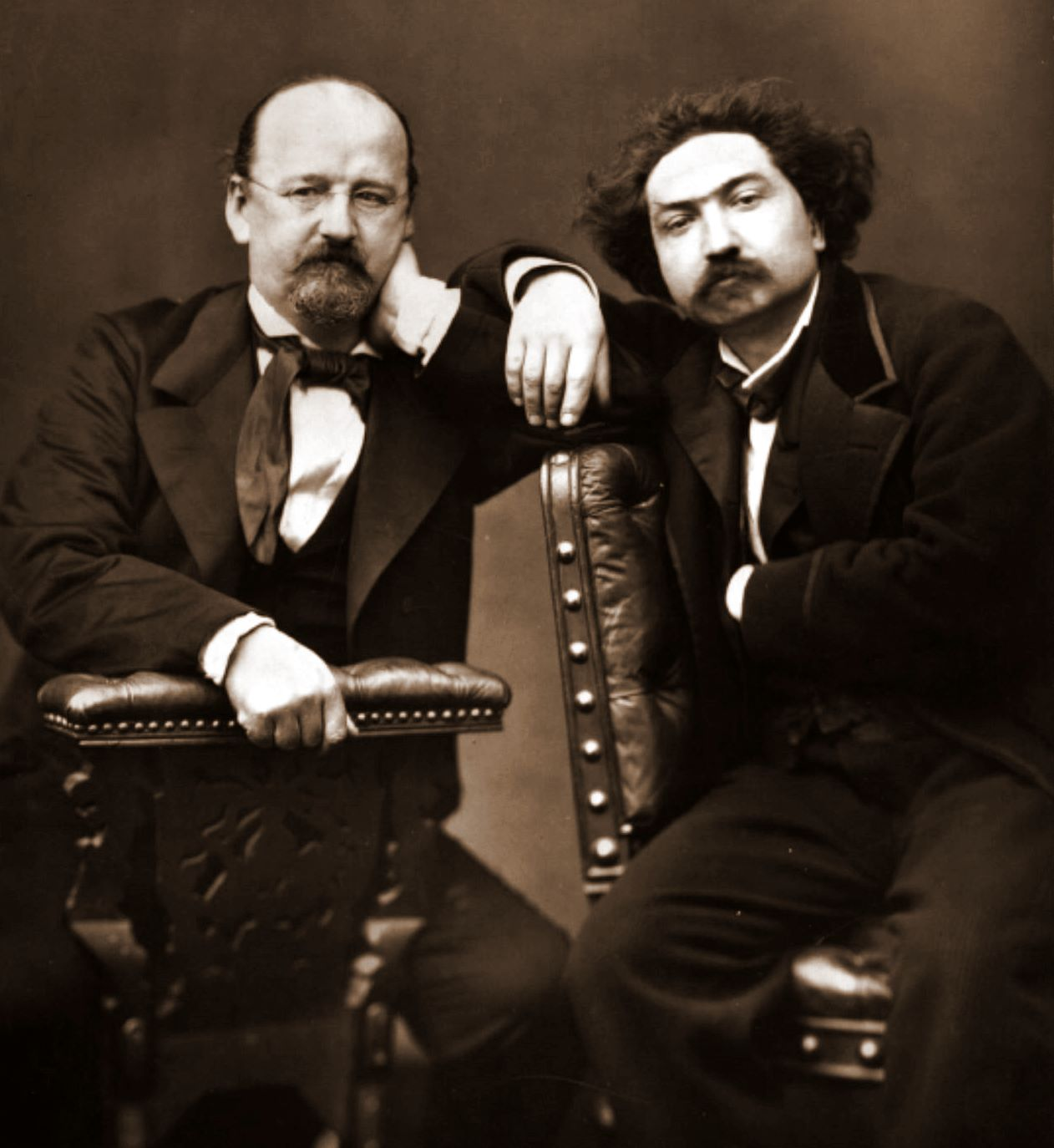 Potograph of Émile Erckman (1822-1899); Alexandre Chatrian (1826-1890), woodburytype published by Grasset et Gillot in Galerie contemporaine, littéraire et artistique, circa 1875.